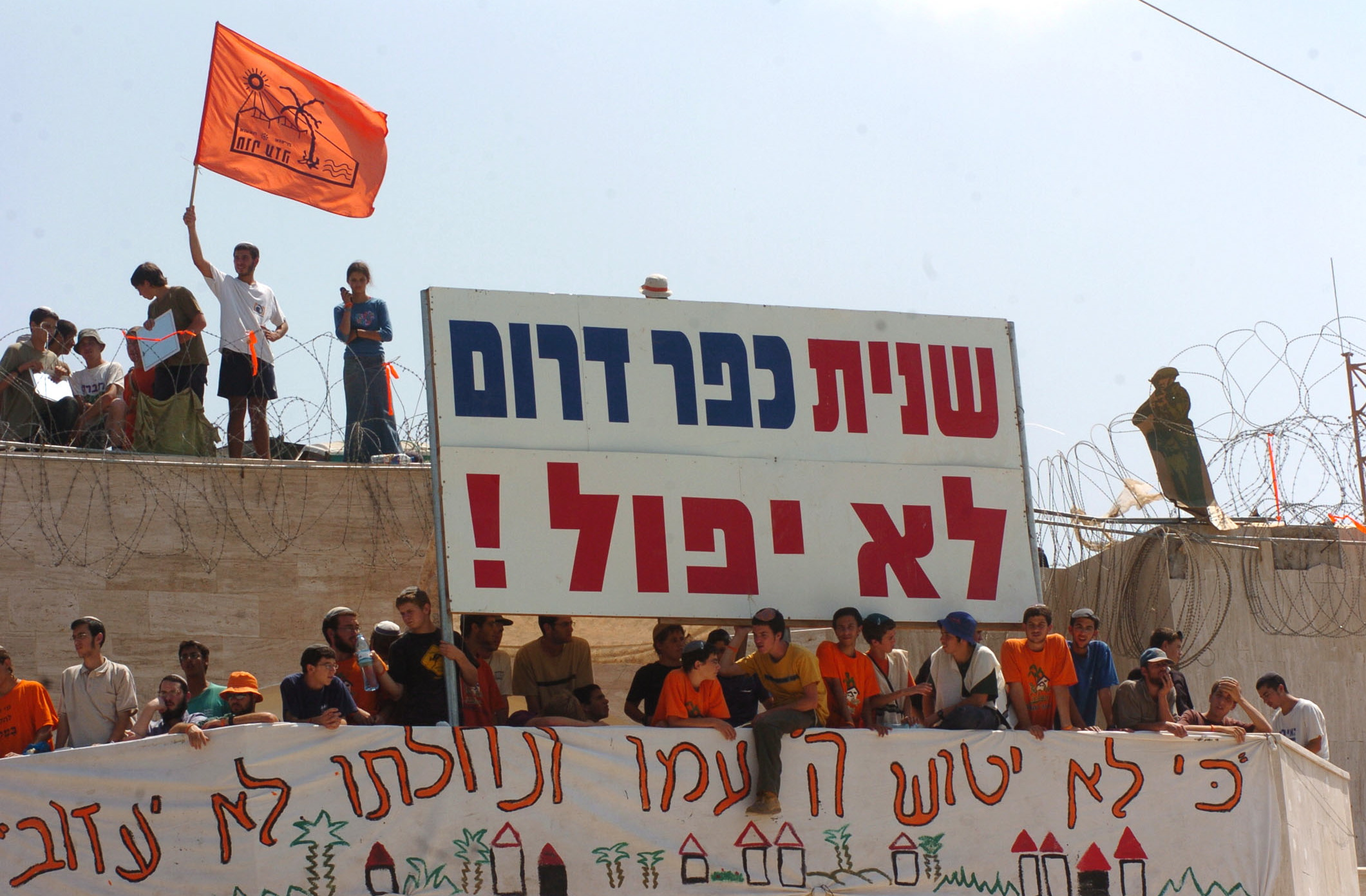 August 18, 2005. Residents protest against the evacuation of the Israeli community Kfar Darom. The sign reads: "Kfar Darom will not fall twice!" The evacuation of Kfar Darom was part of the Gaza Disengagement, which occurred during the summer of 2005.